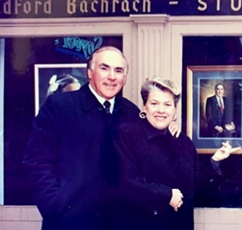 Sports agent Bob Woolf and his wife, Anne, in Rockefeller Center, 1990